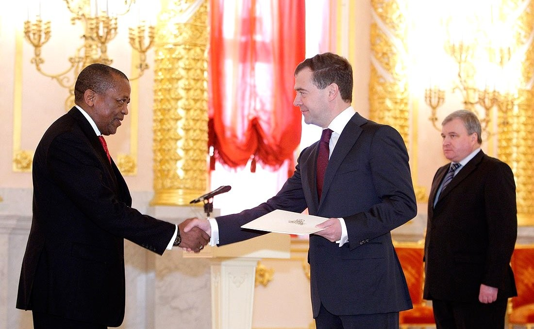 GRAND KREMLIN PALACE, MOSCOW. Presentation by foreign ambassadors of their letters of credence. Dmitry Medvedev receives a letter of credence from Ambassador of the Kingdom of Lesotho Makase Nyaphisi.